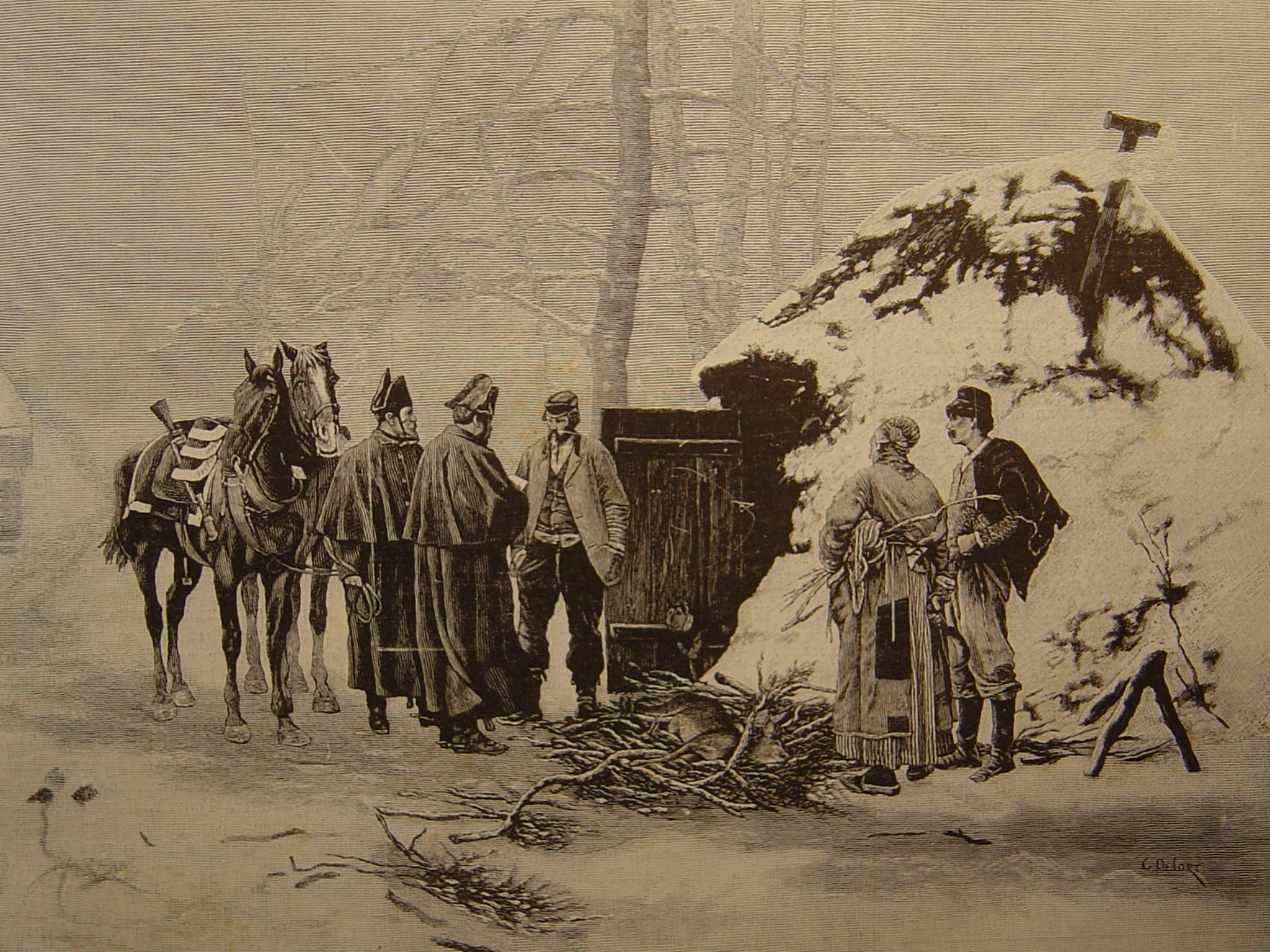 Always at war with the law, such is the condition of the poacher. Delfort shows us surprising a family of poachers. Impossible to deny because the corpus delicti is obvious, the man lowers his head. The soldiers are proud, while the wife and brother stand by, silent witnesses.